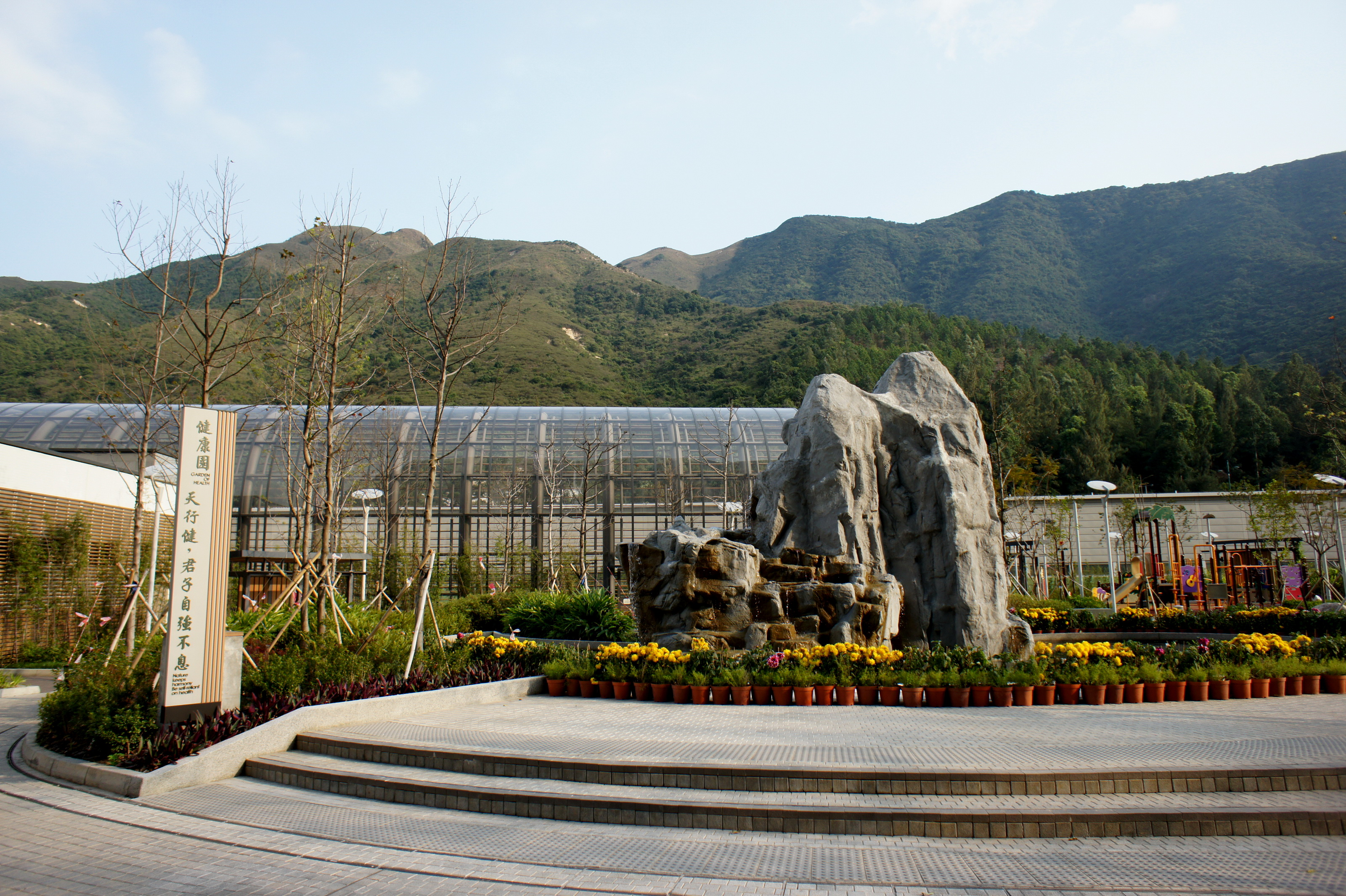 Entrance of the "Garden of Health", Tung Chung North Park, Hong Kong.